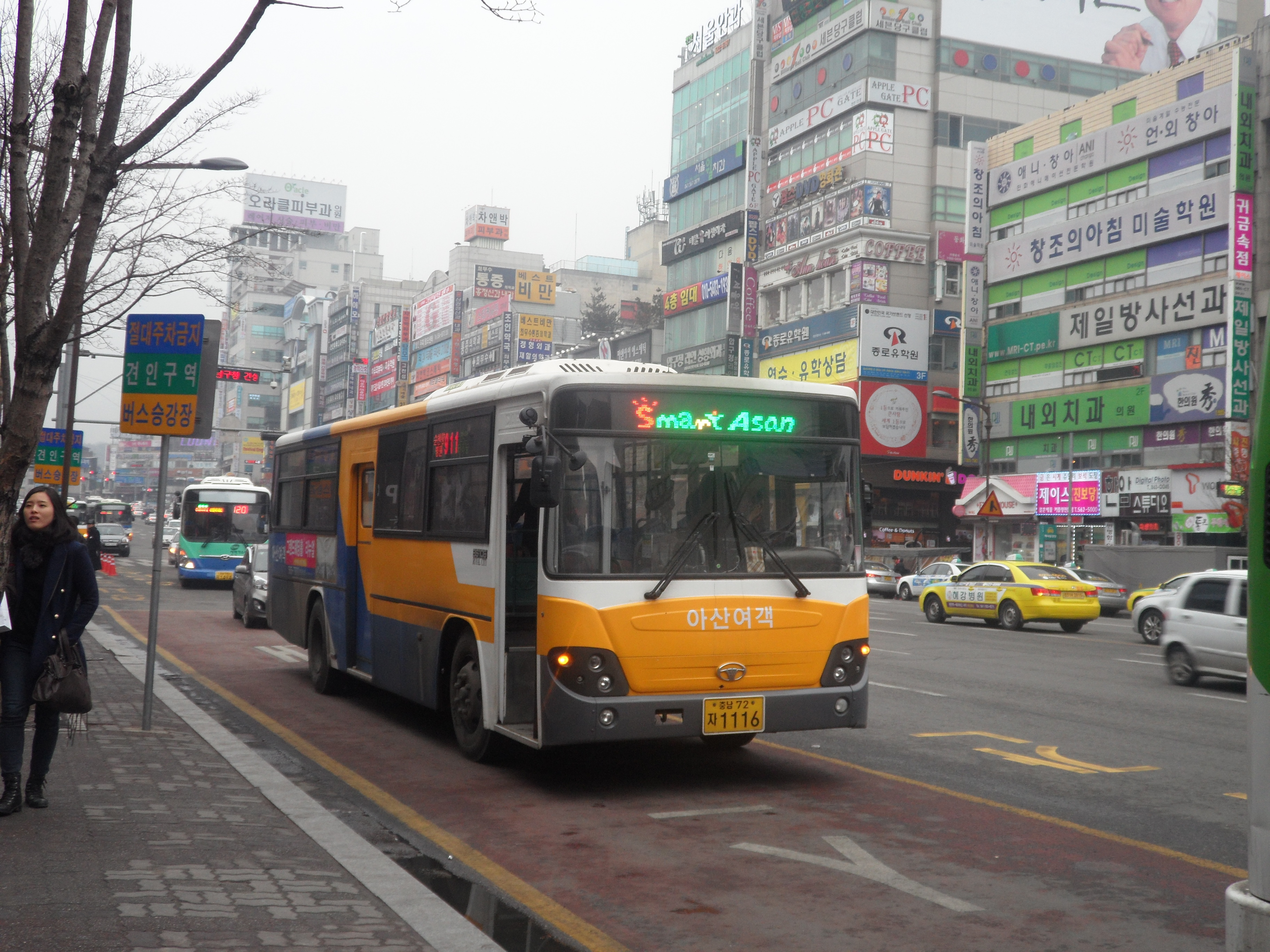 Bus in Asan, South Chungcheong province(Chungchoengnam- do)